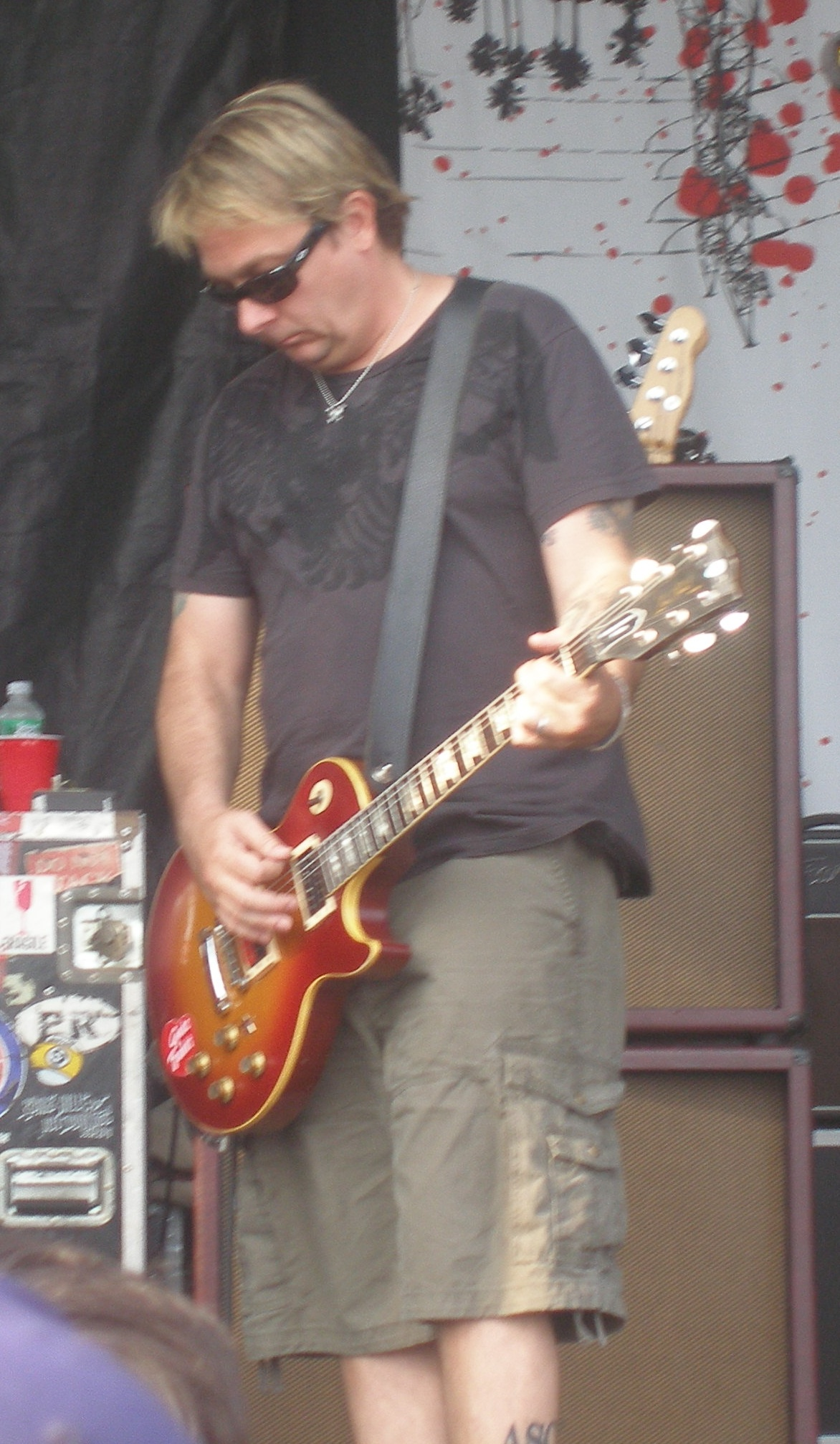 Picture I took of Brian Baker playing with Bad Religion on August 5th, 2007 in Englishtown, New Jersey.